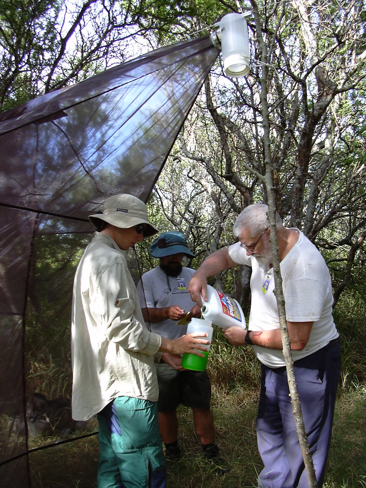 Chenopodium oahuense (malaise trap with Frank and crew). Location: Maui, Kahului